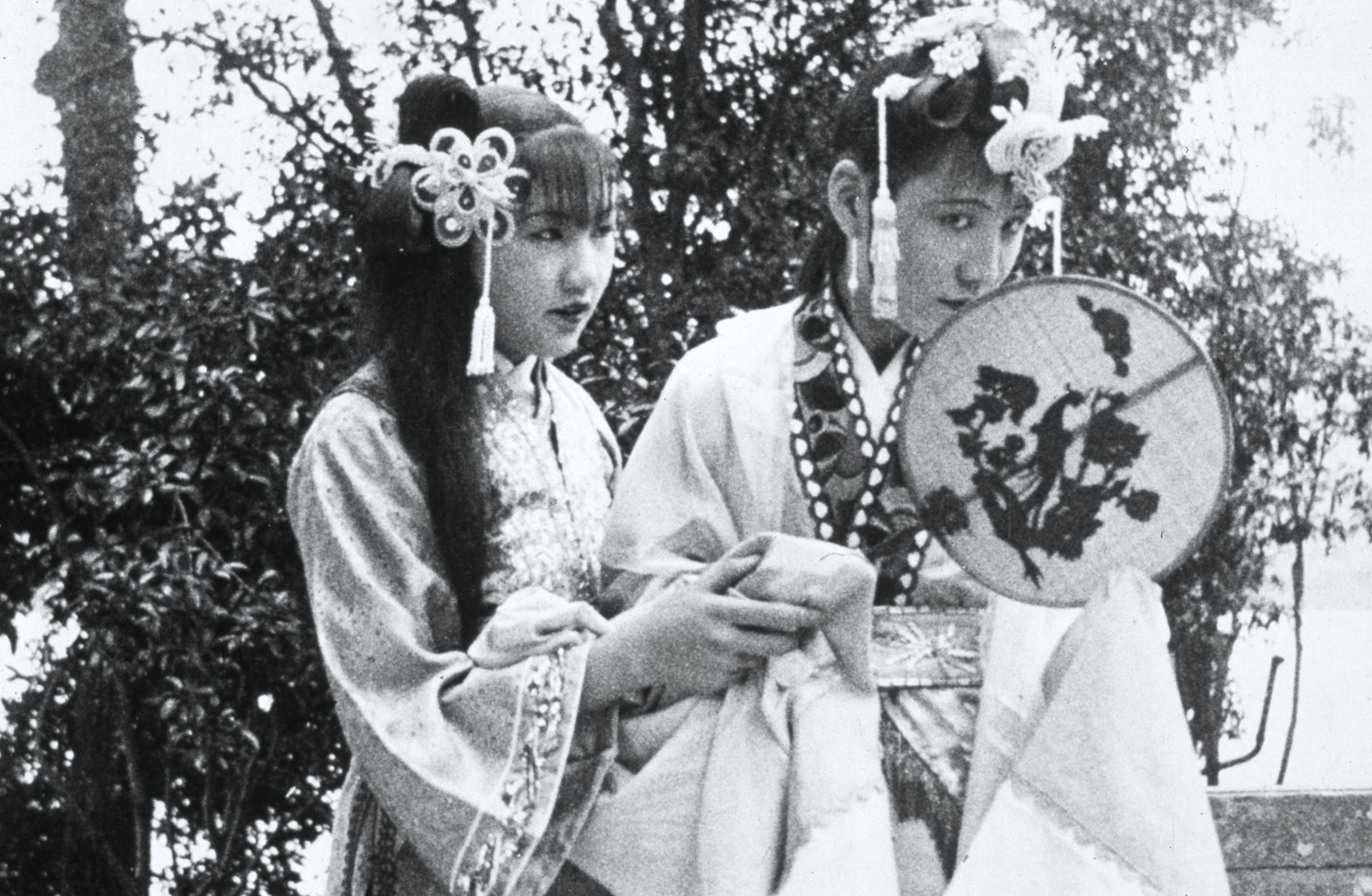 Romance of the Western Chamber (Chinese: 西廂記; pinyin: xīxiāngjì) is a 1927 silent Chinese film drama directed by Hou Yao. This is a scene from the film.